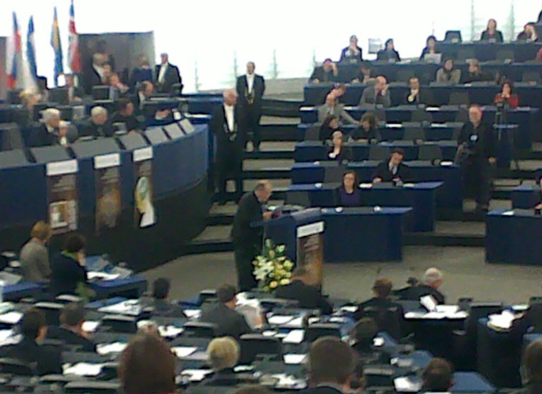 The Sakharov Prize for 2009 being awarded to Memorial from Russia, in the hemicycle of the European Parliament in Strasbourg, France.